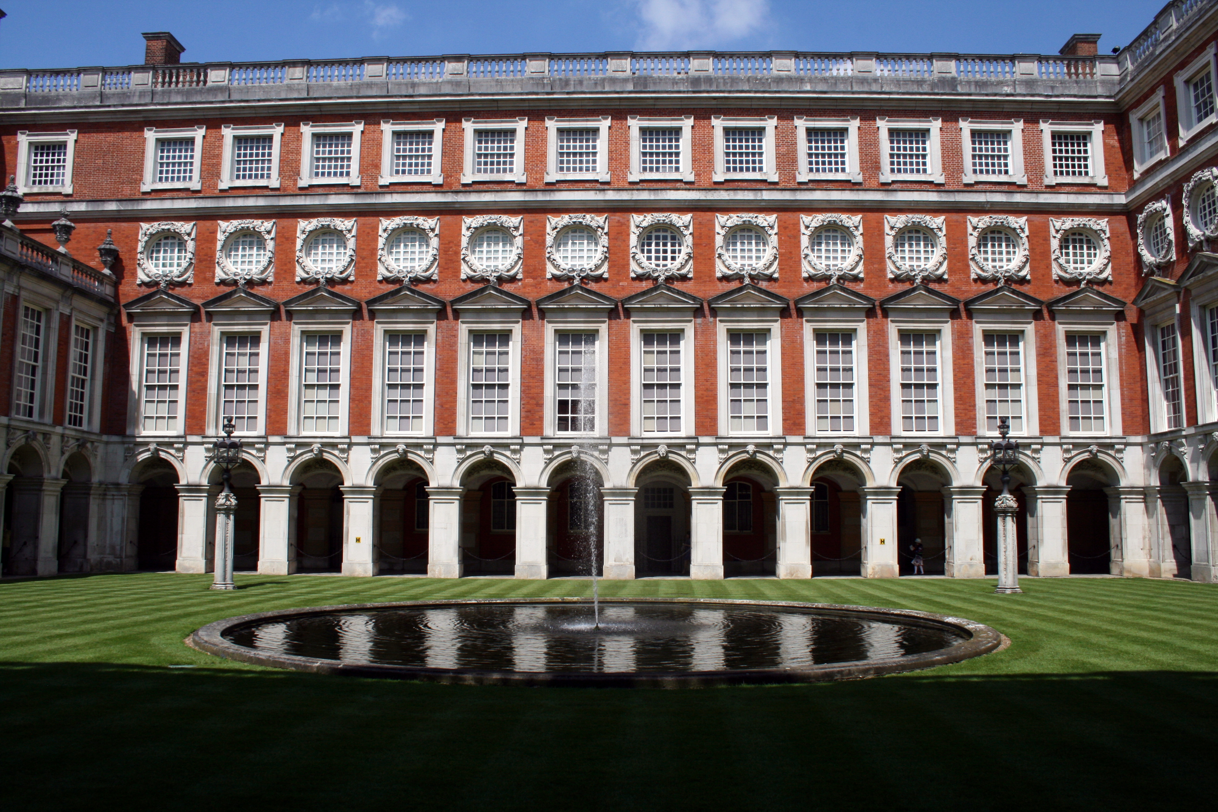 Wrens additions to Hampton Court Palace, the Fountain Court is unforgettable.